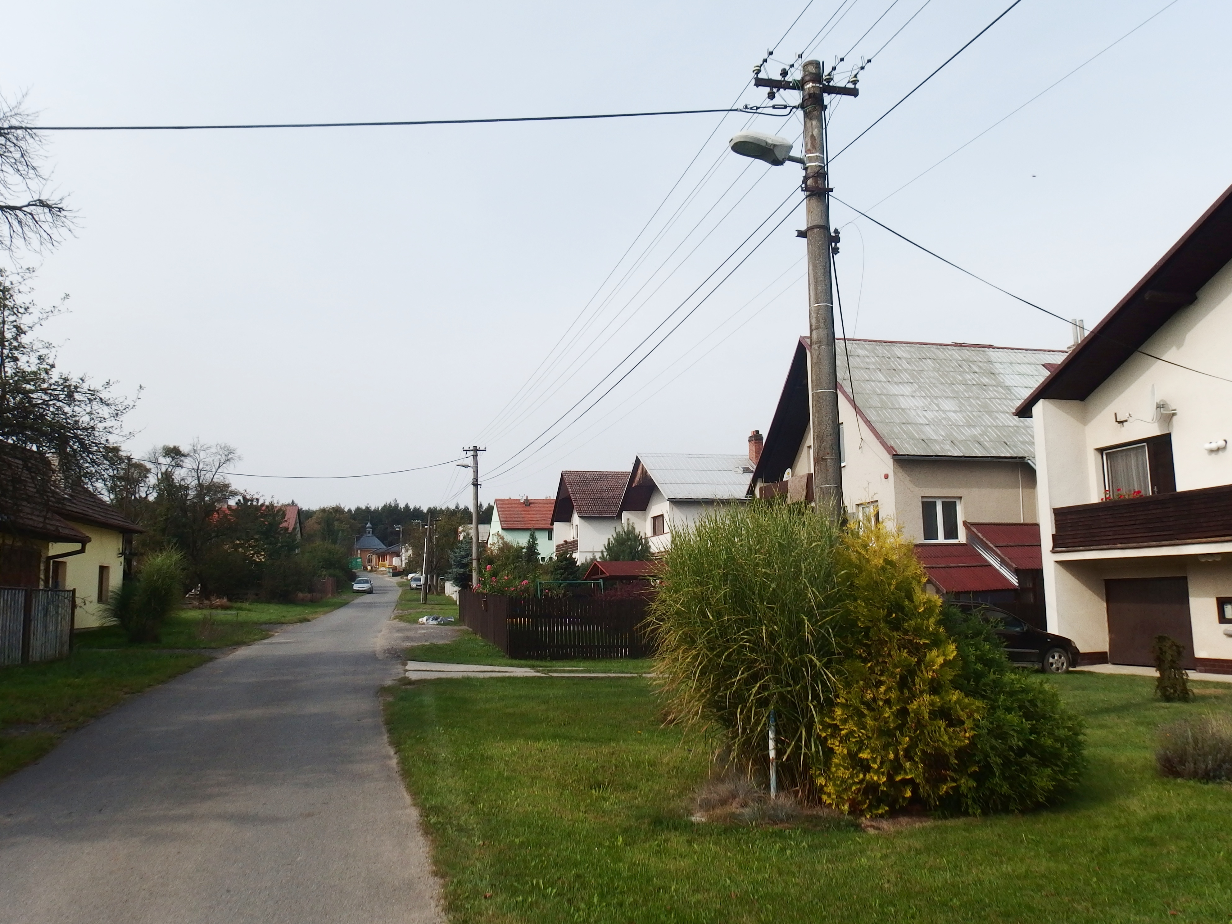 Zlín, Czech Republic, part Chlum.